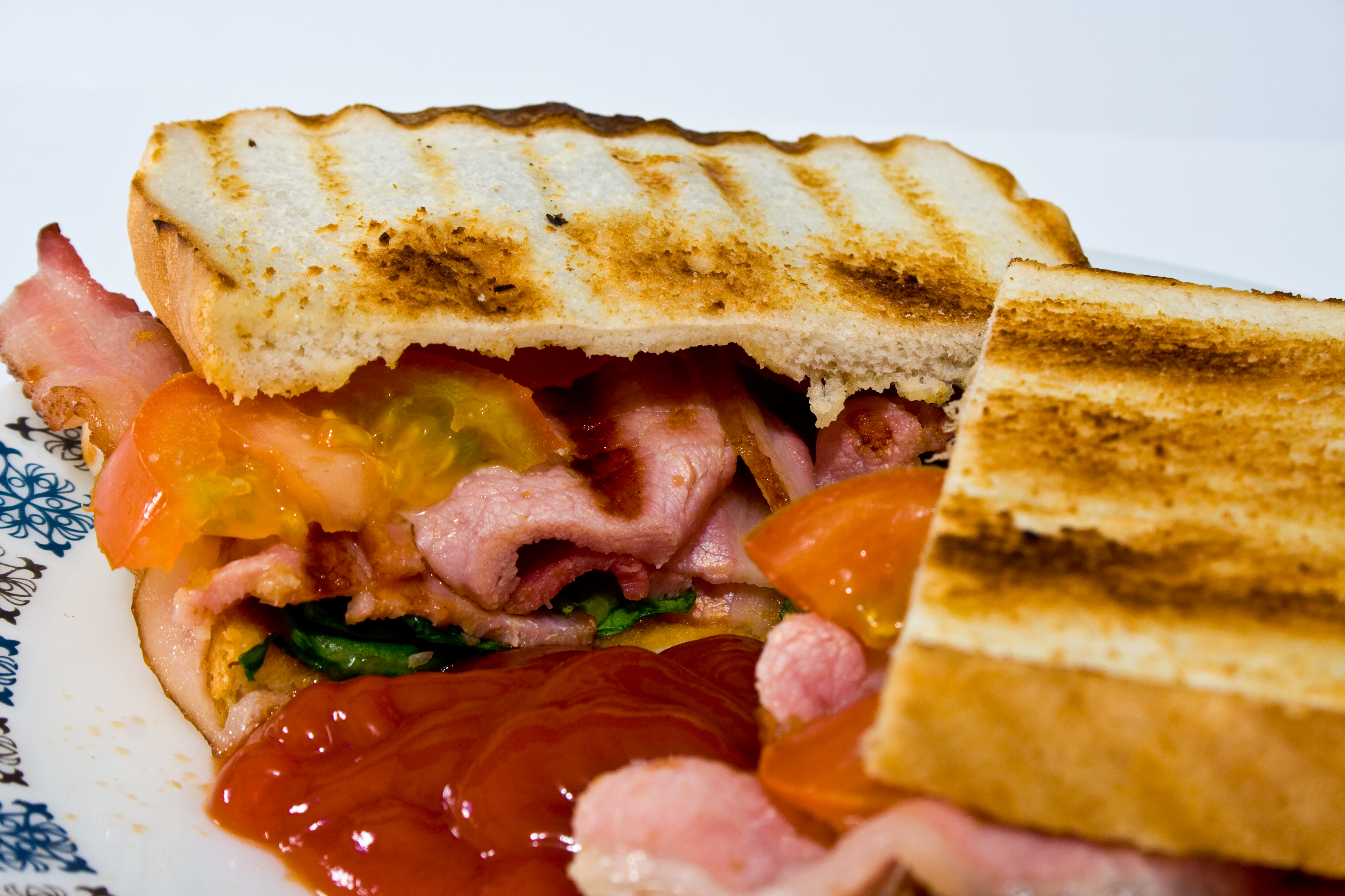 Bacon sandwich made with toasted thick bread, organic tomatoes, a bit of salad and four rashers of bacon cooked to not quite crispy